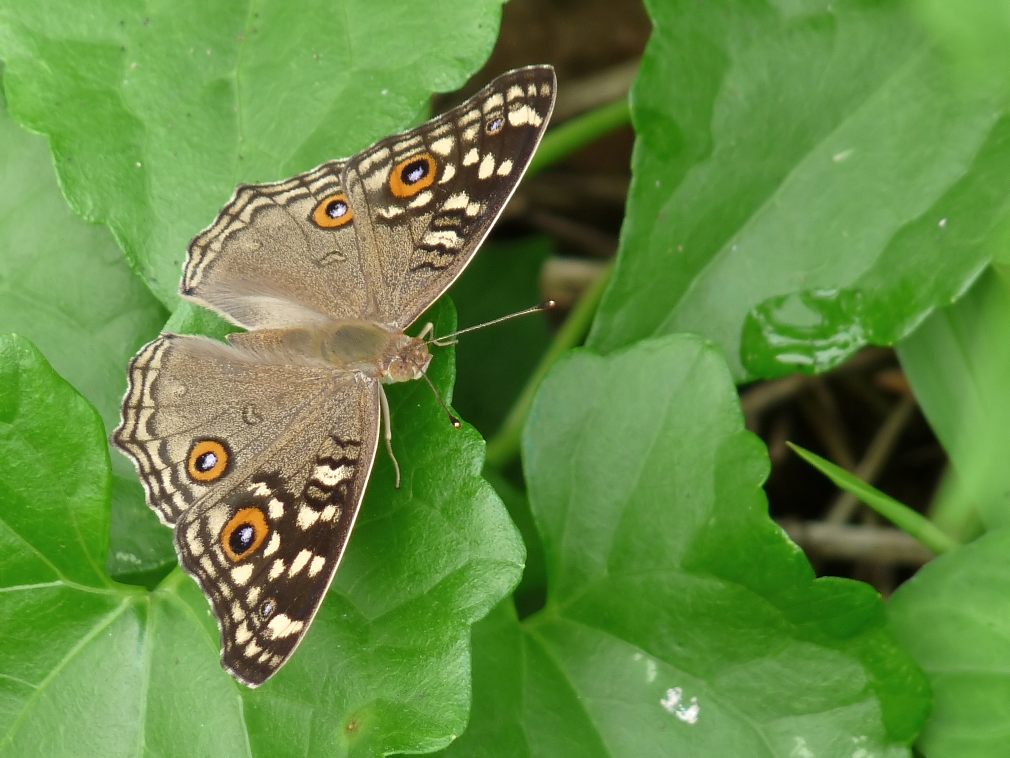 Junonia lemonias, Lemon Pansy, is a common nymphalid butterfly found in South Asia. It is found in gardens, fallow land, and open wooded areas.